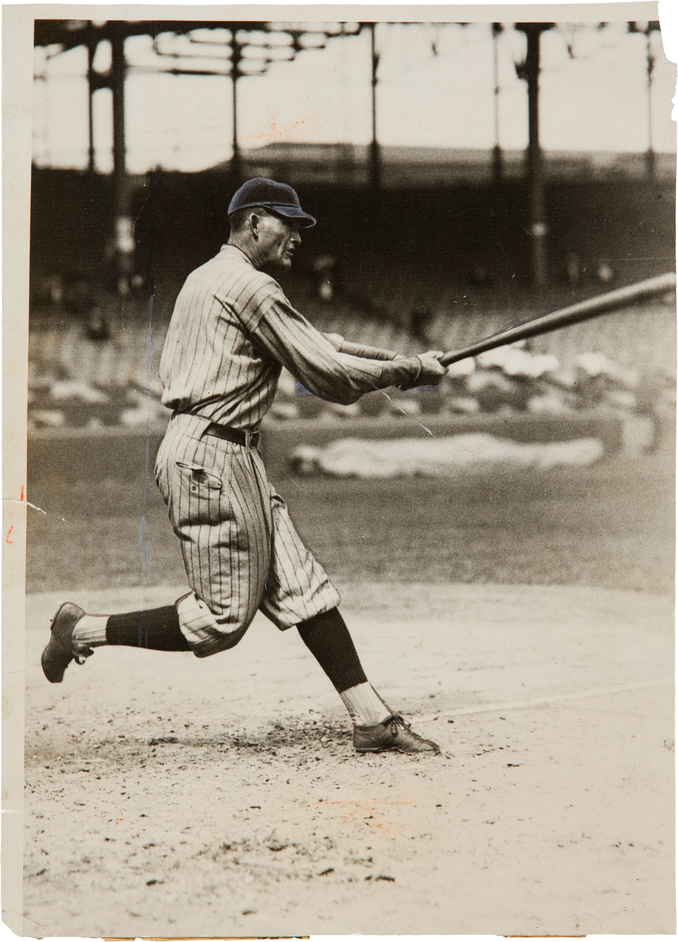 1922 Rogers Hornsby Original News Photograph